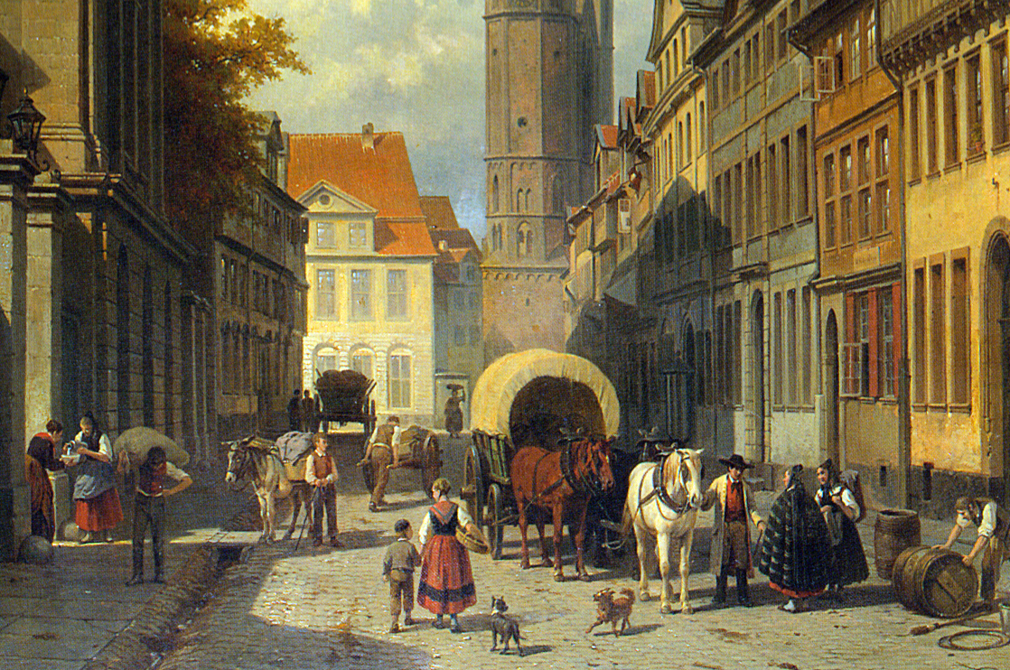 Jacques Carabain : A Busy Street in a German Town